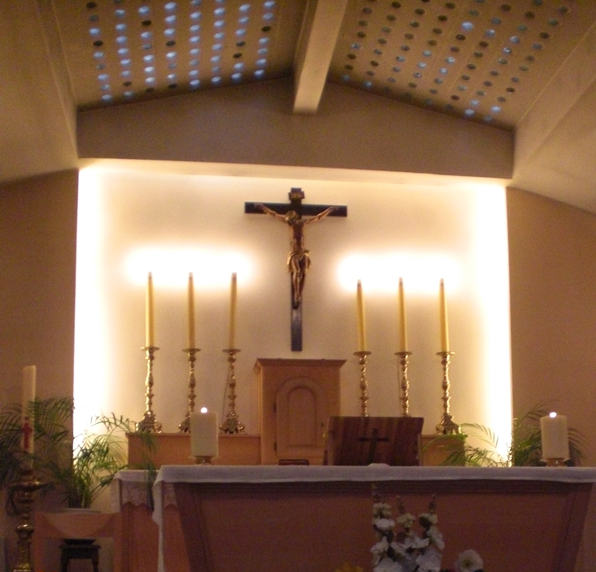 Mariavite Church in Paris